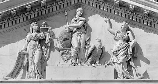 The pediment over the east central entrance of the U.S. Capitol. The sculptural pediment is called Genius of America, and was made by Luigi Persico in sandstone from 1825 to 1828, and is 81 feet 6 inches in length with the figures being 9 feet high. The central figure represents America,who rests her right arm on a shield inscribed "USA"; the shield is supported by an altar bearing the inscription "July 4, 1776." America points to Justice, who lifts scales in her left hand and in her right hand holds a scroll inscribed "Constitution, 17 September 1787." To America's left are an Eagle and the figure of Hope, who rests her arm on an anchor. When the Capitol's east central front was extended in 1958-1962, the badly deteriorated figures were removed and restored and plaster models were made of them. From these models the reproductions seen today on the pediment were carved in Georgia White marble by Bruno Mankowski. The plaster models are displayed in the basement rotunda of the Cannon House Office Building, on the subway level. The original sandstone figures are in storage.